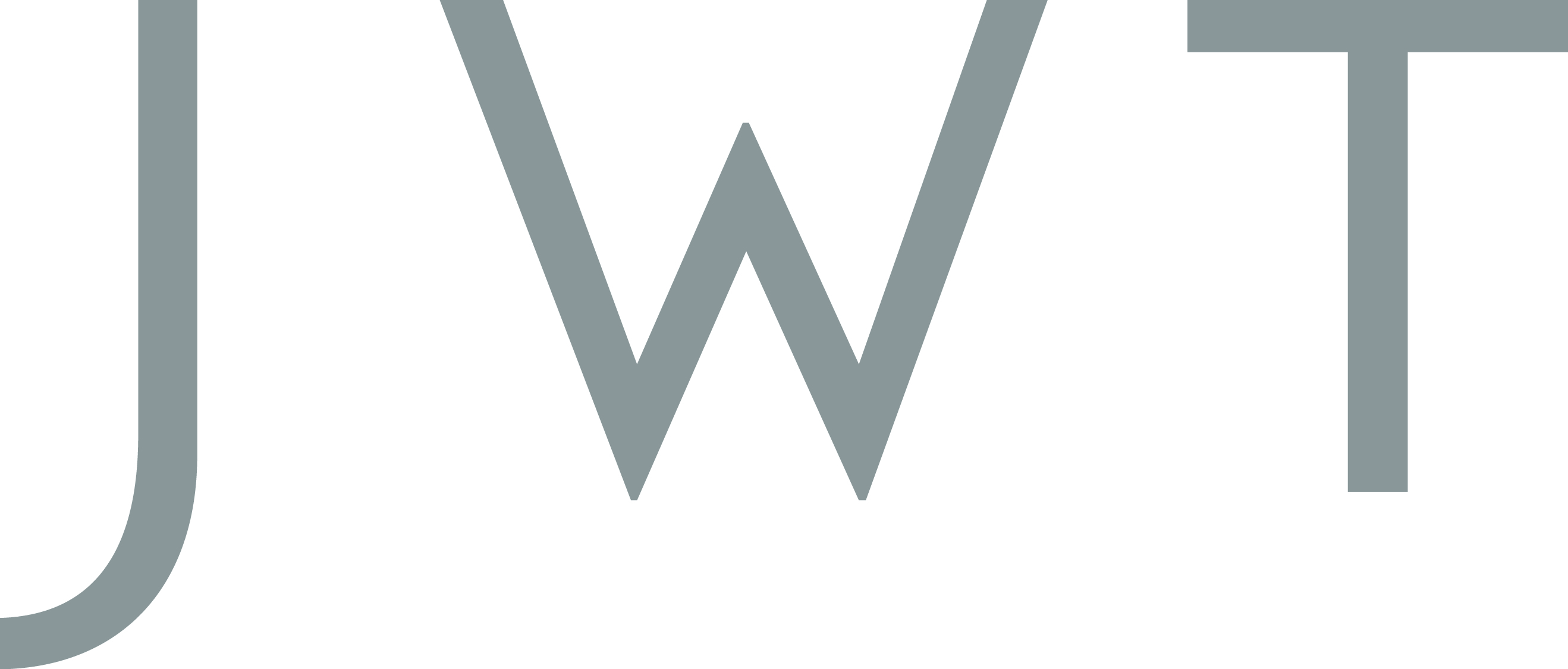 JWT logo